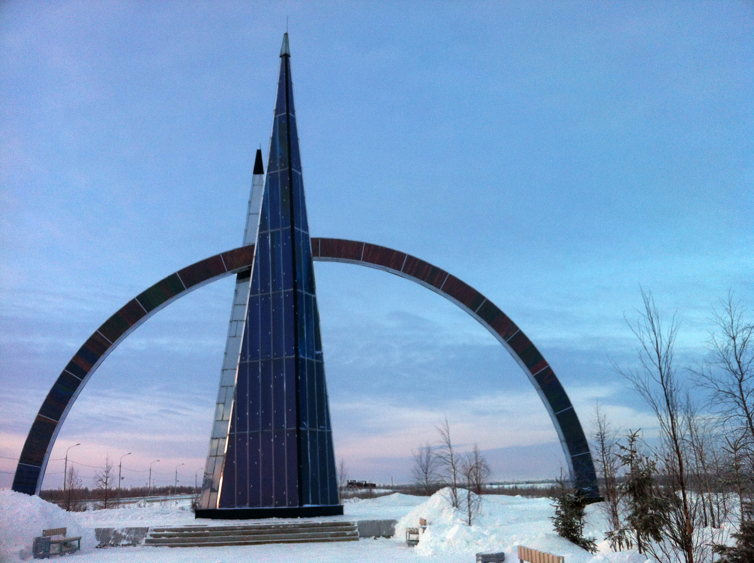 Stele «66th parallel» (Polar circle monument). Salekhard.